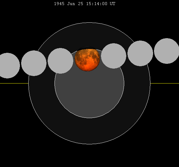 June 1945 lunar eclipse chart of moon's path through the earth's shadow. thumb